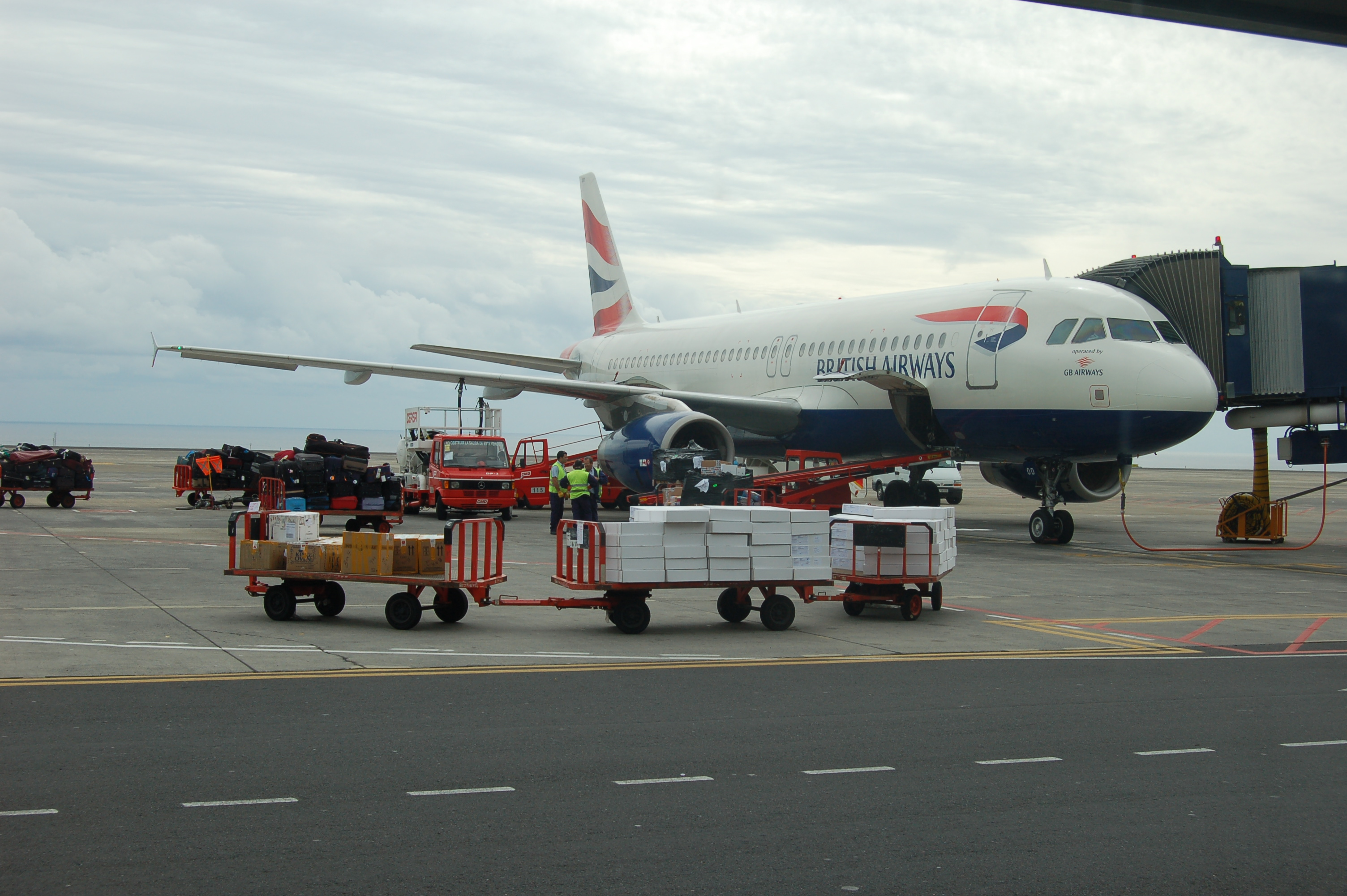 Pictures taken at Tenerife South Airport GCTS-TFS GB Airways at TFS GCTS